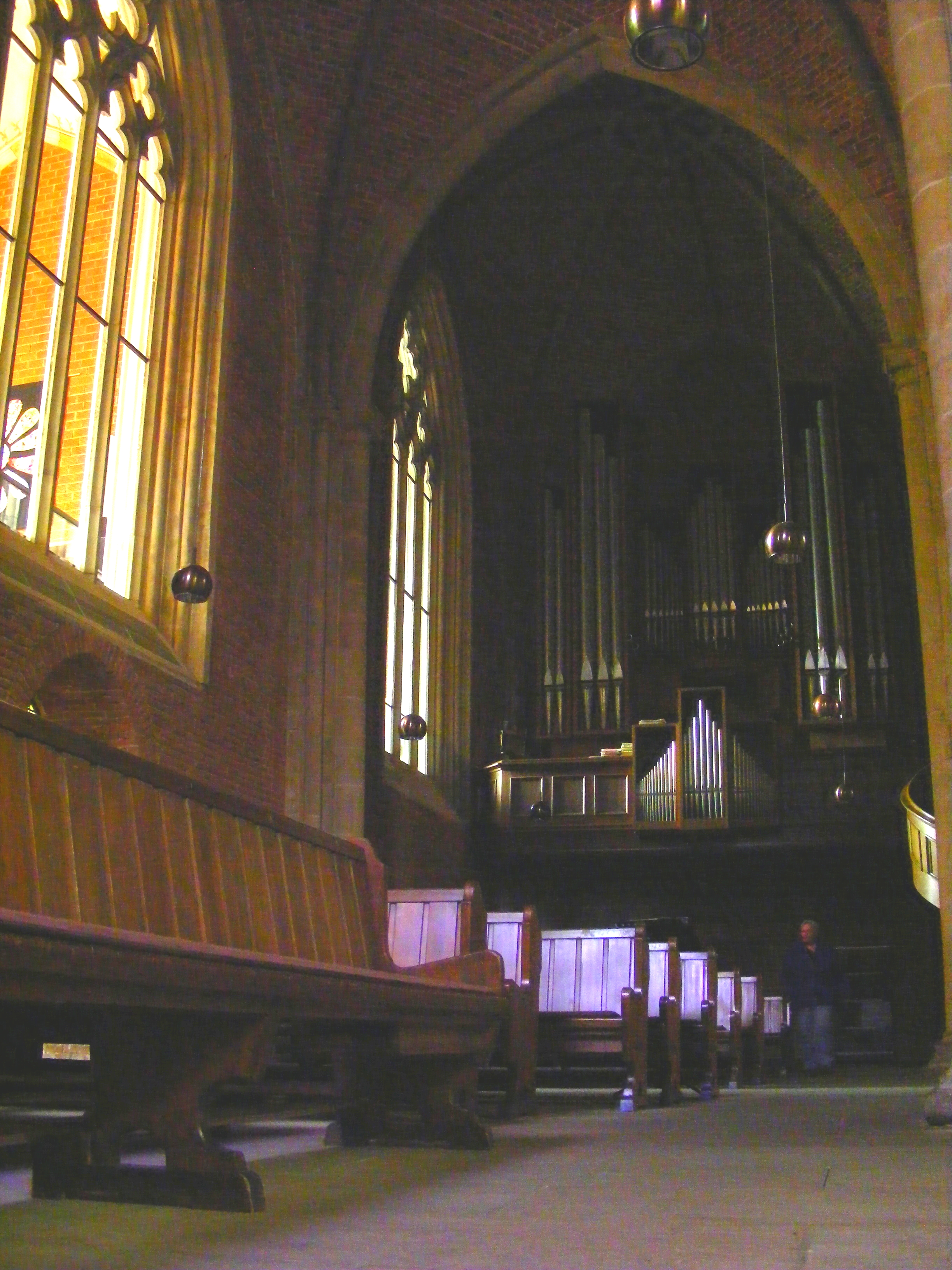 Organ of Kirche Unser Lieben Frauen (Our Dear Lady`s Church) in Bremen, seen from the ground of the inner soutern aisle